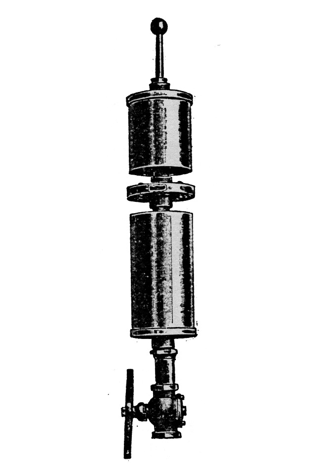 From a 1906 trade catalog.